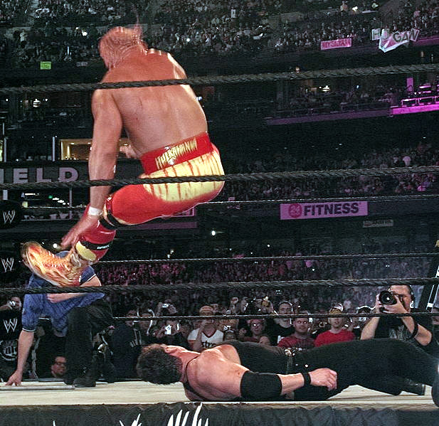 Hulk Hogan hitting his infamous Leg Drop on Vince McMahon. March 30en:2003. Safeco Field Seattle, WA